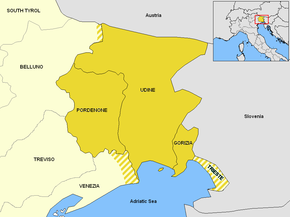 Map of the spread of the Friulian language in Italy. It is found in the provinces of Gorizia, Pordenone, Udine, Belluno, Venezia (Venice), and in Triest.